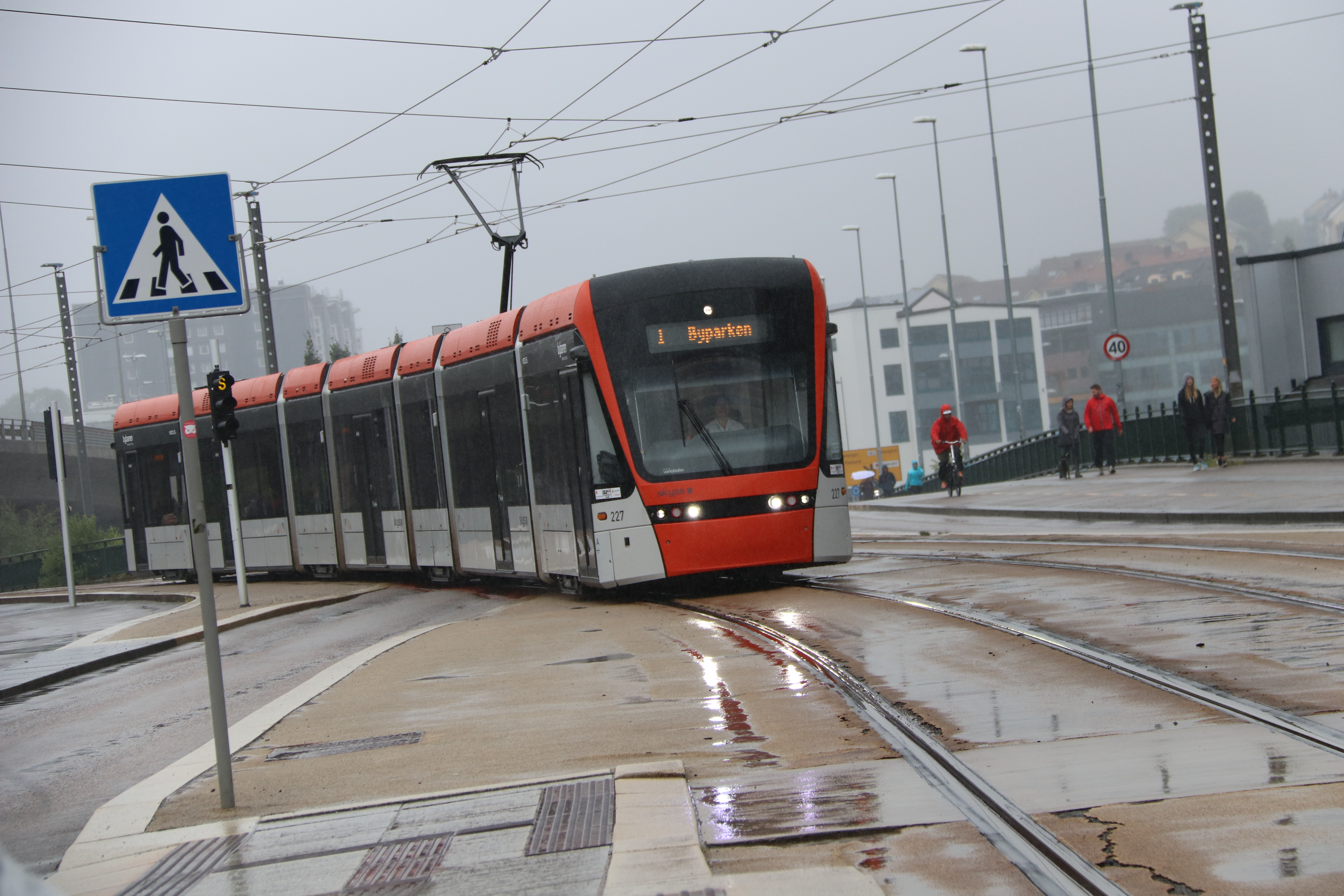 Stadler Variobahn 227 in Bergen, Norway, entering Forida station on a rainy day.